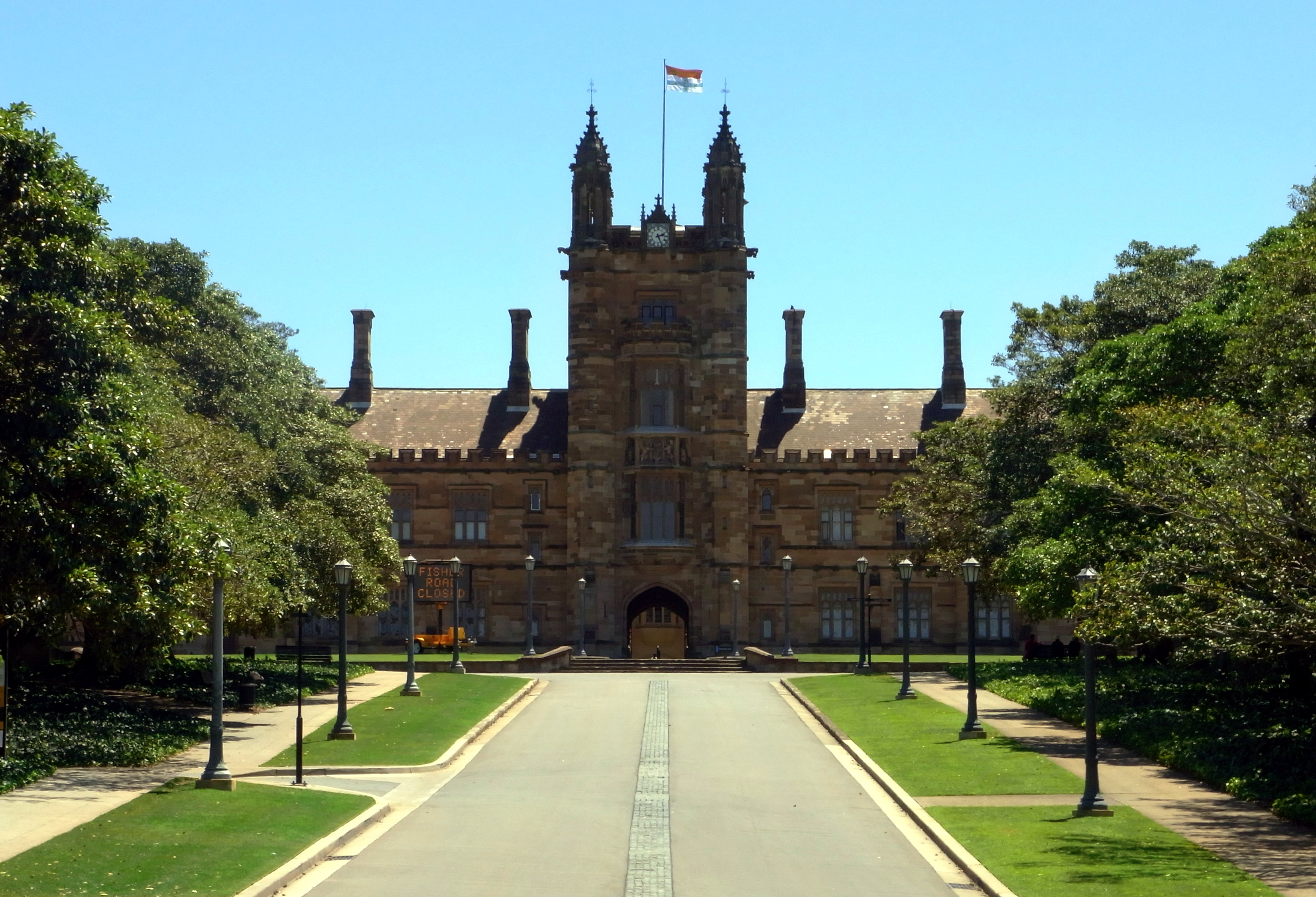 University of Sydney, Location